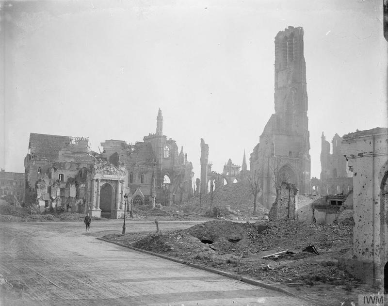 Destruction on the Western Front, 1914-1918 Ruins of the Cathedral at Ypres, 22 November 1916.